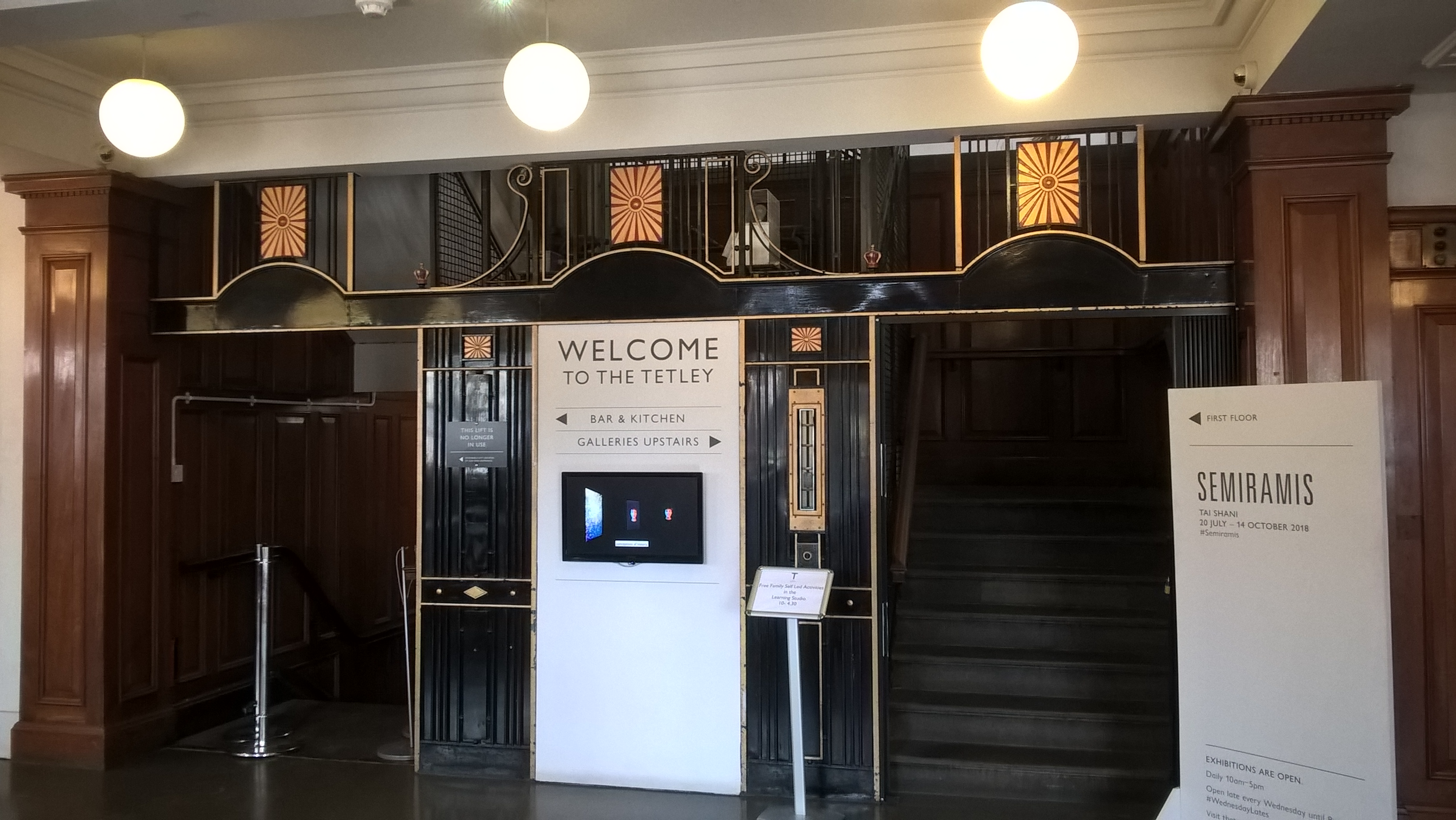 Interior of the Tetley, Leeds. Former brewery offices, now art gallery. Welcome sign in foyer and lift no longer in use.